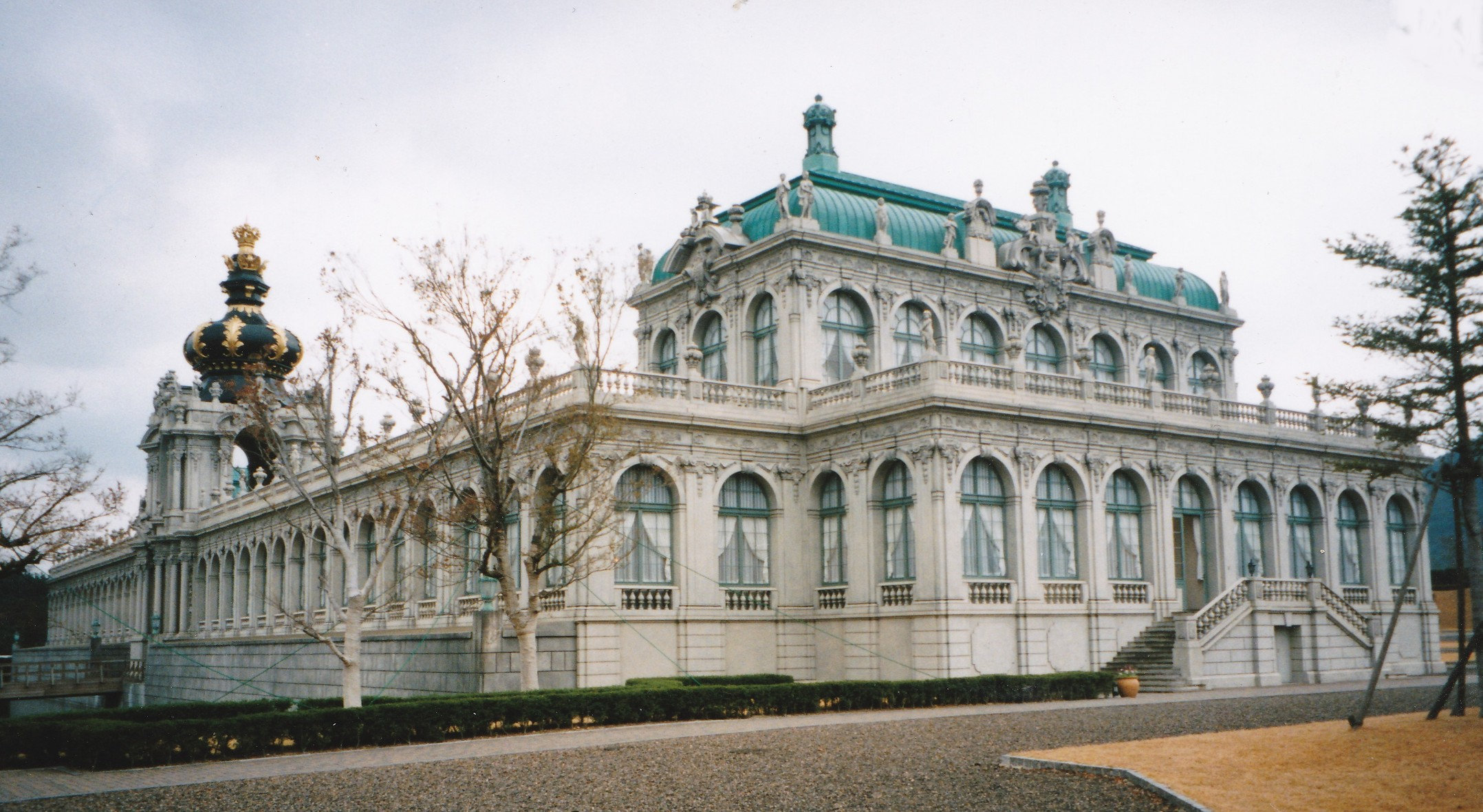 Copy of Dresden Zwinger (a Baroque building at Dresden) at Arita (Japan)